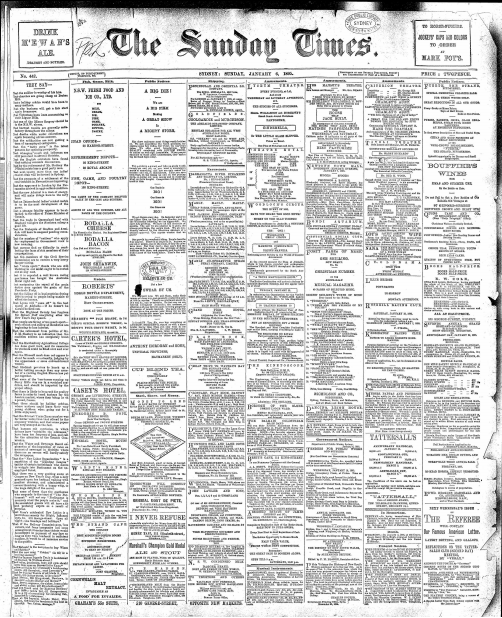 Front cover of the Sunday Times, Sydney Australia, on 6 January 1895